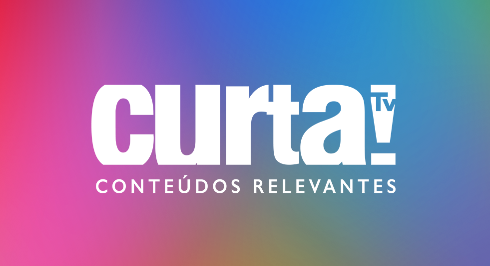 Curta Conteúdos Relevantes